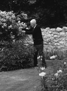 Oskar Kokoschka